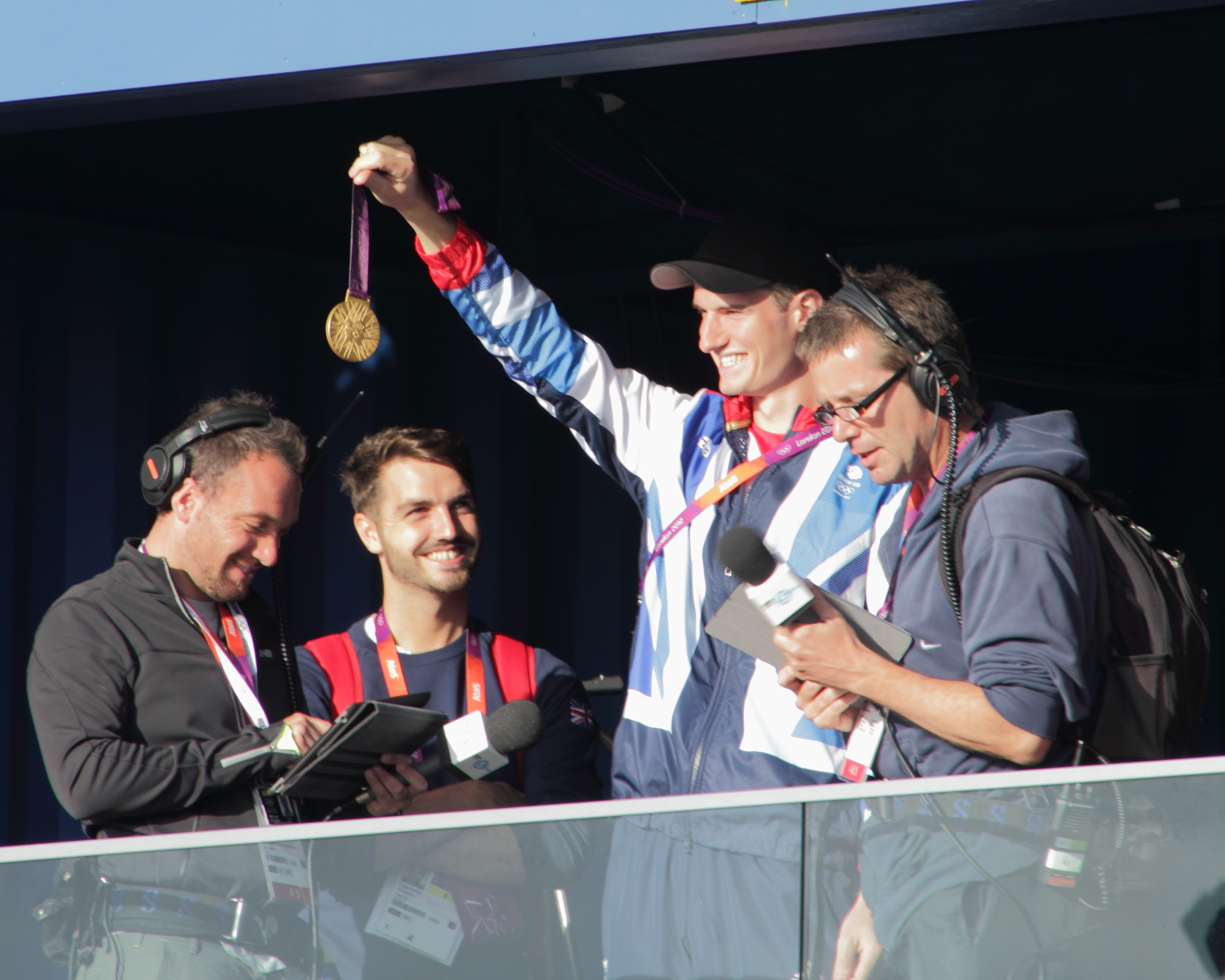 Peter Wilson, the British London 2012 Gold Medallist in the Shooting Double Trap event shows off his Gold medal won the day before, to the crowd waiting outside the BBC Olympic Studio in the London Olympic Park. He was being interviewed by Nicky Campbell of BBC Radio 5-Live at the time and received a massive roaring cheer.